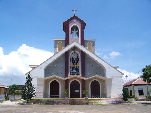 Hoi An Catholic Church